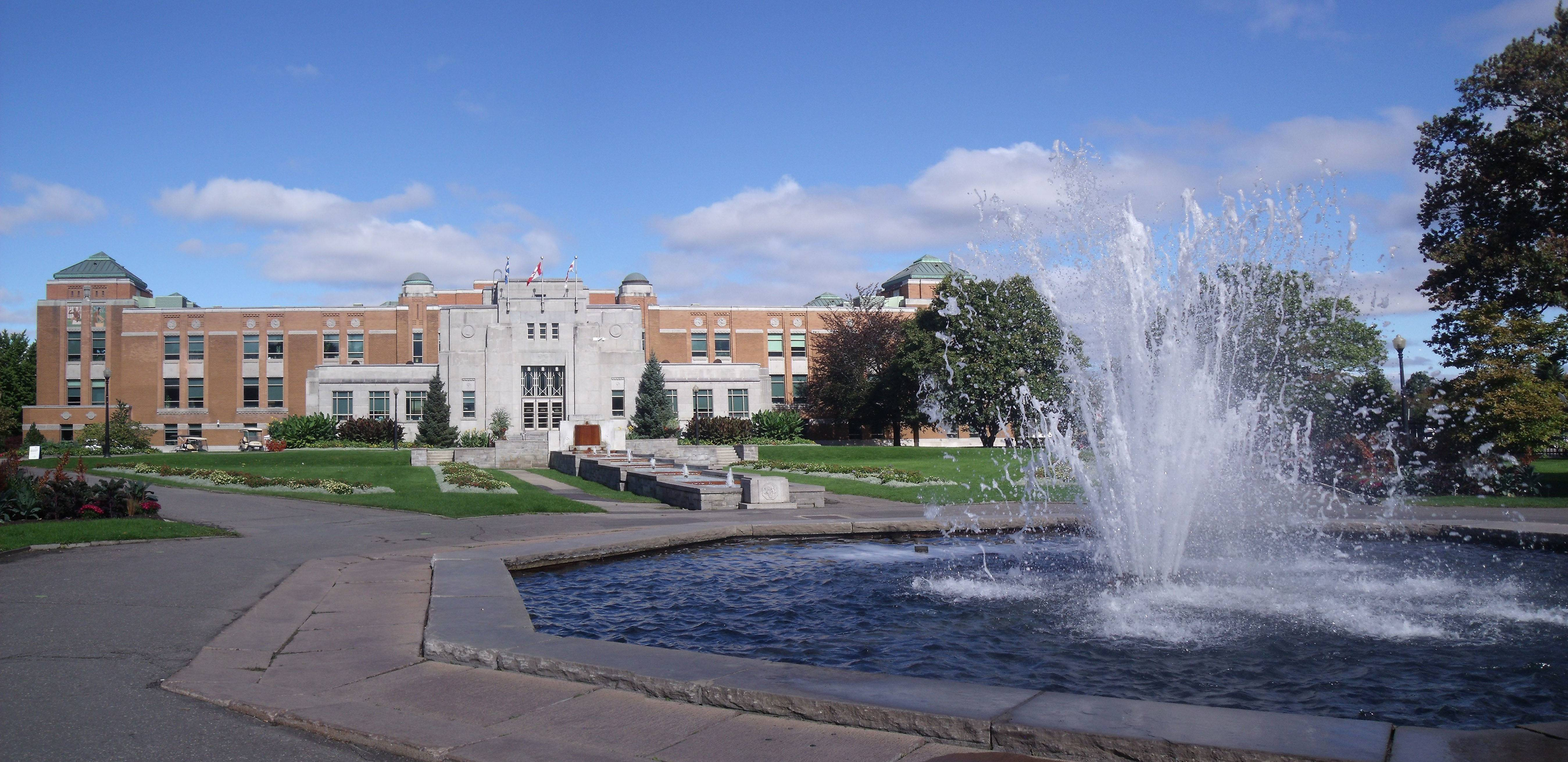 Marie-Victorin Building, Montreal Botanical Garden, 4101-4601 Sherbrooke Street East, Montreal, Quebec, Canada.